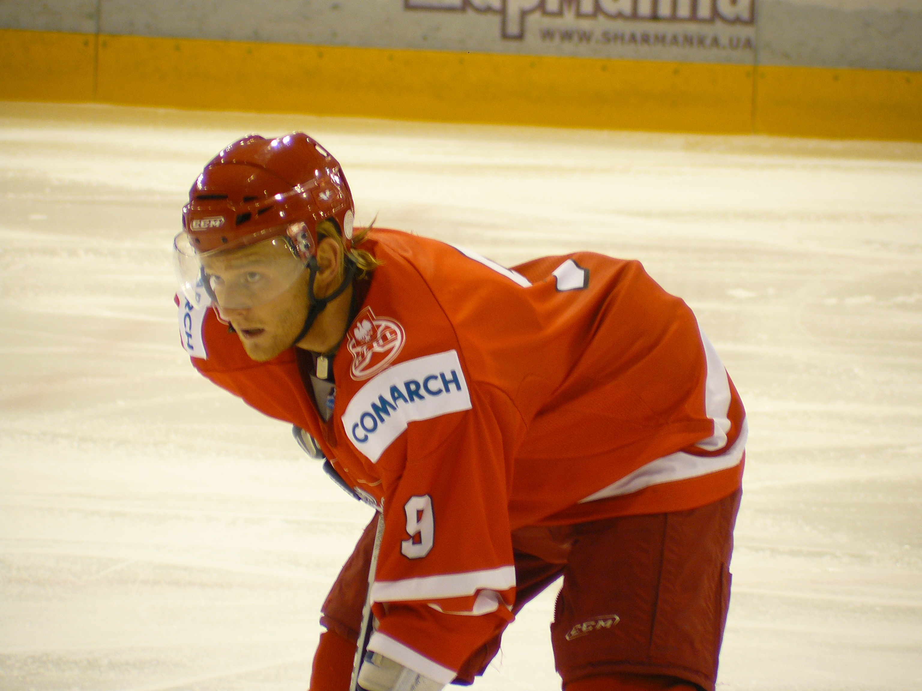 Forward Filip Drzewiecki #9 of the Poland during the friendly game against the Ukraine on April 9, 2010 at the Terminal Arena in Brovary, Ukraine. Ukraine won the game 5:1.